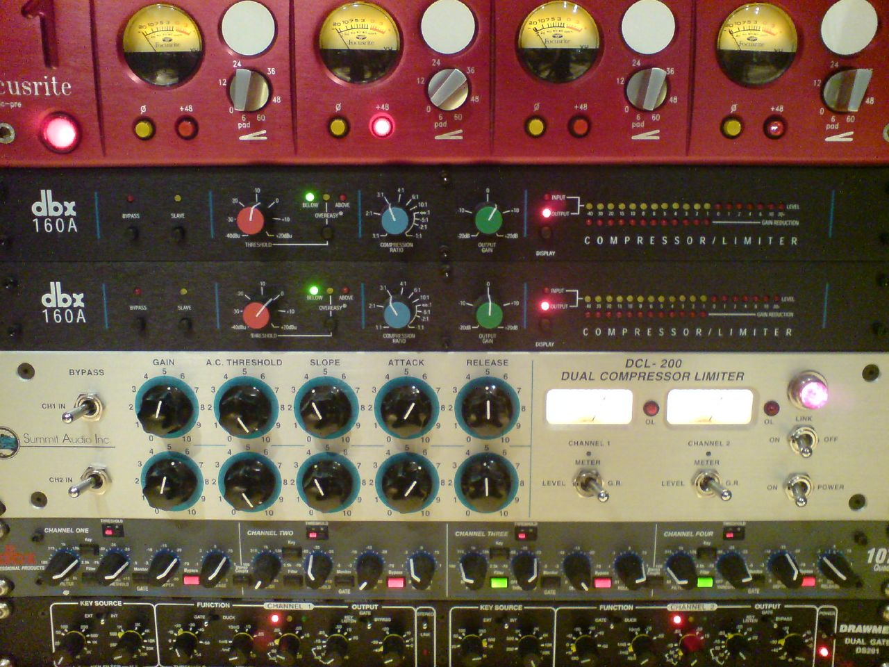 knobs and vu meters, Studio D, BU CDIA